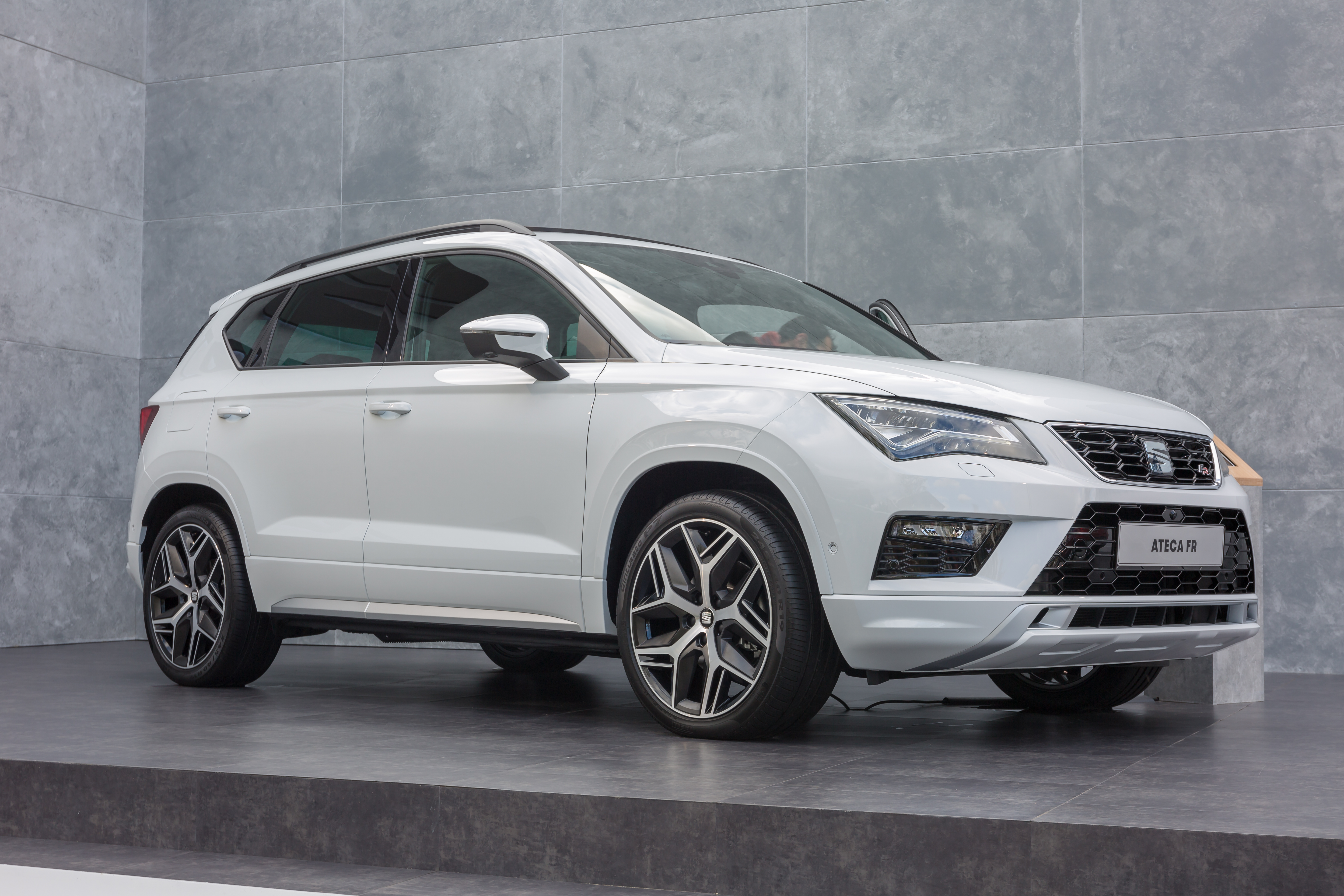 Seat Ateca FR, Mondial Paris Motor Show 2018